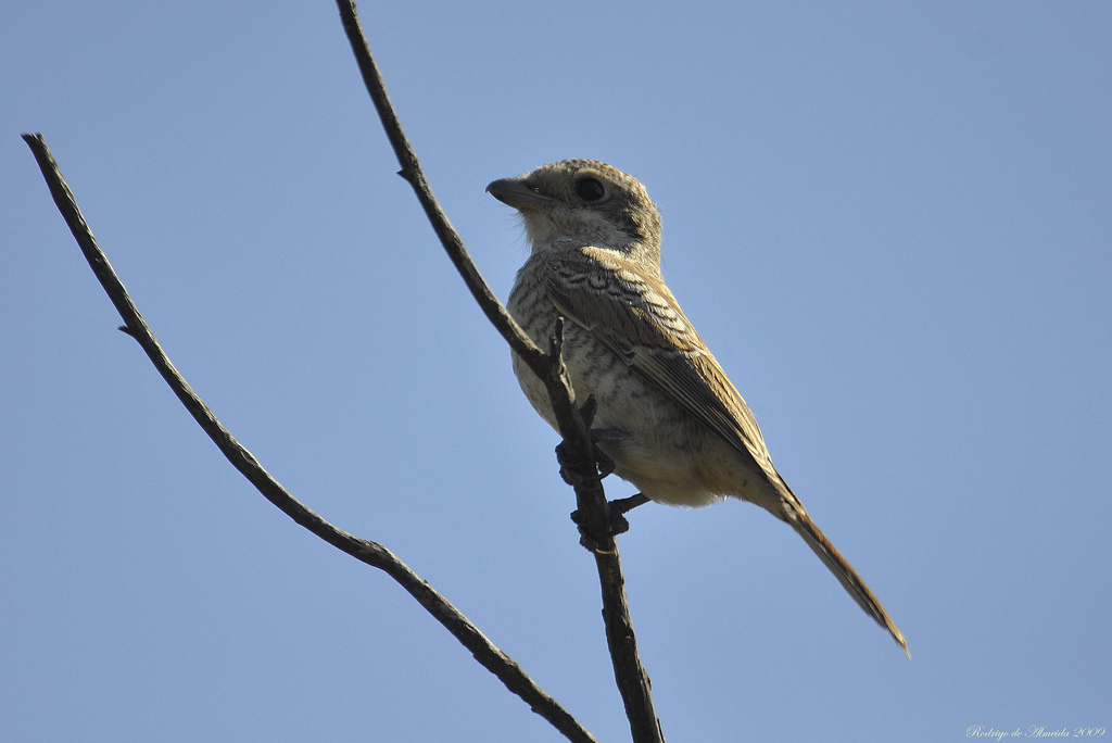 Woodchat Shrike (Lanius senator) Juvenil